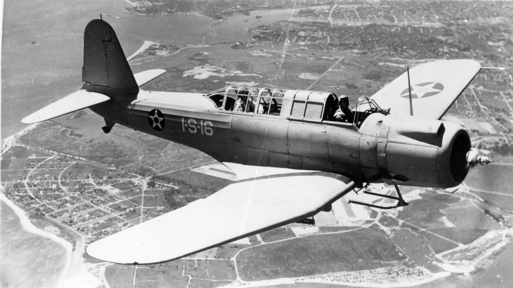 PictionID:40971535 - Title:Vindicator Vought SB2U-3 VS-1 1-S-16 - Catalog:15_002851 - Filename:15_002851.tif - PictionID:40971474 - Title:Lancer Republic YP-43 - Catalog:15_002846 - Filename:15_002846.tif - Image from the Charles Daniels Photo Collection album "US Army Aircraft."----PLEASE TAG this image with any information you know about it, so that we can permanently store this data with the original image file in our Digital Asset Management System.----SOURCE INSTITUTION: San Diego Air and Space Museum Archive